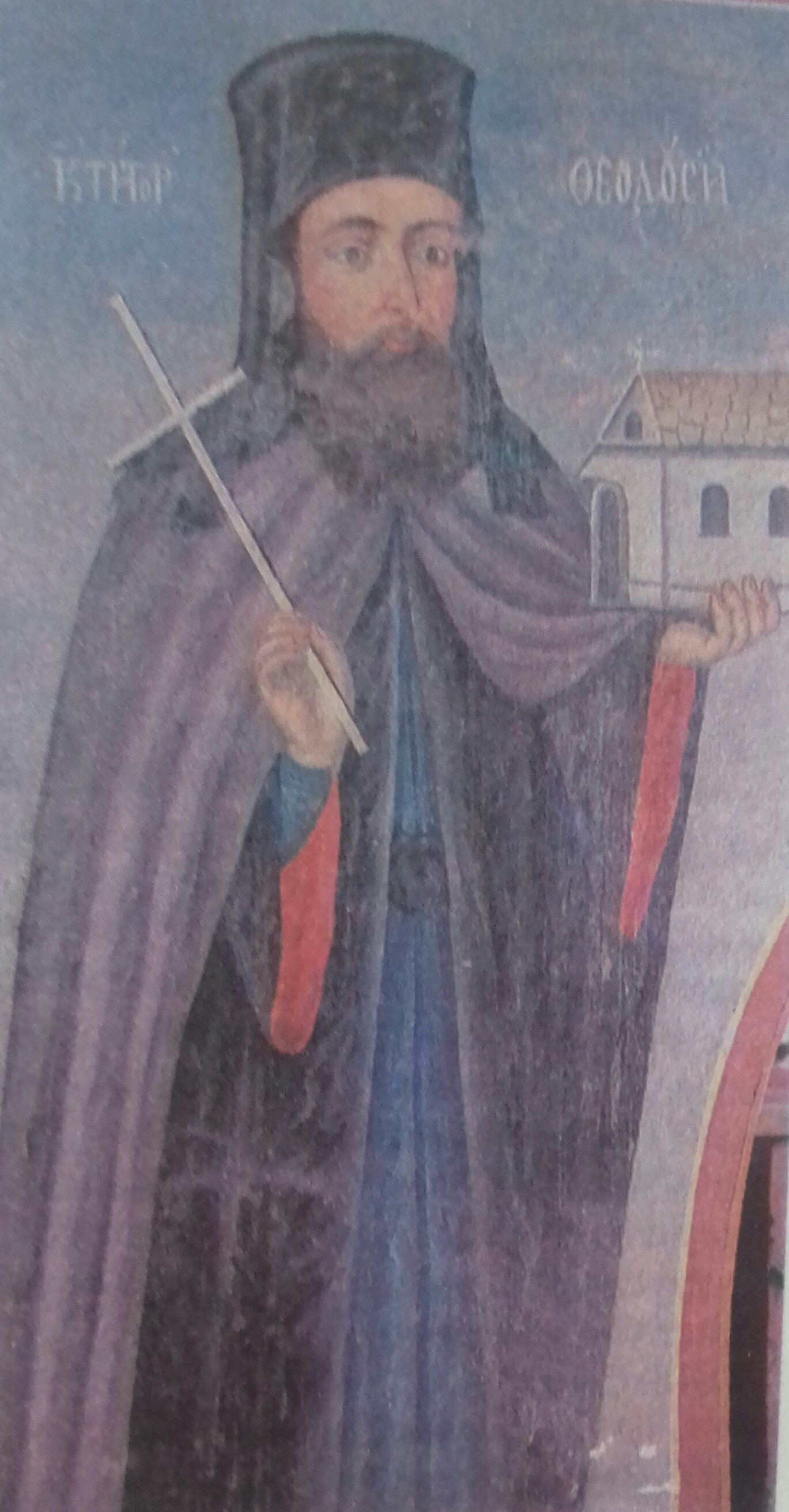 Theodosius of RilaPortrait by Toma Vishanov, 1811